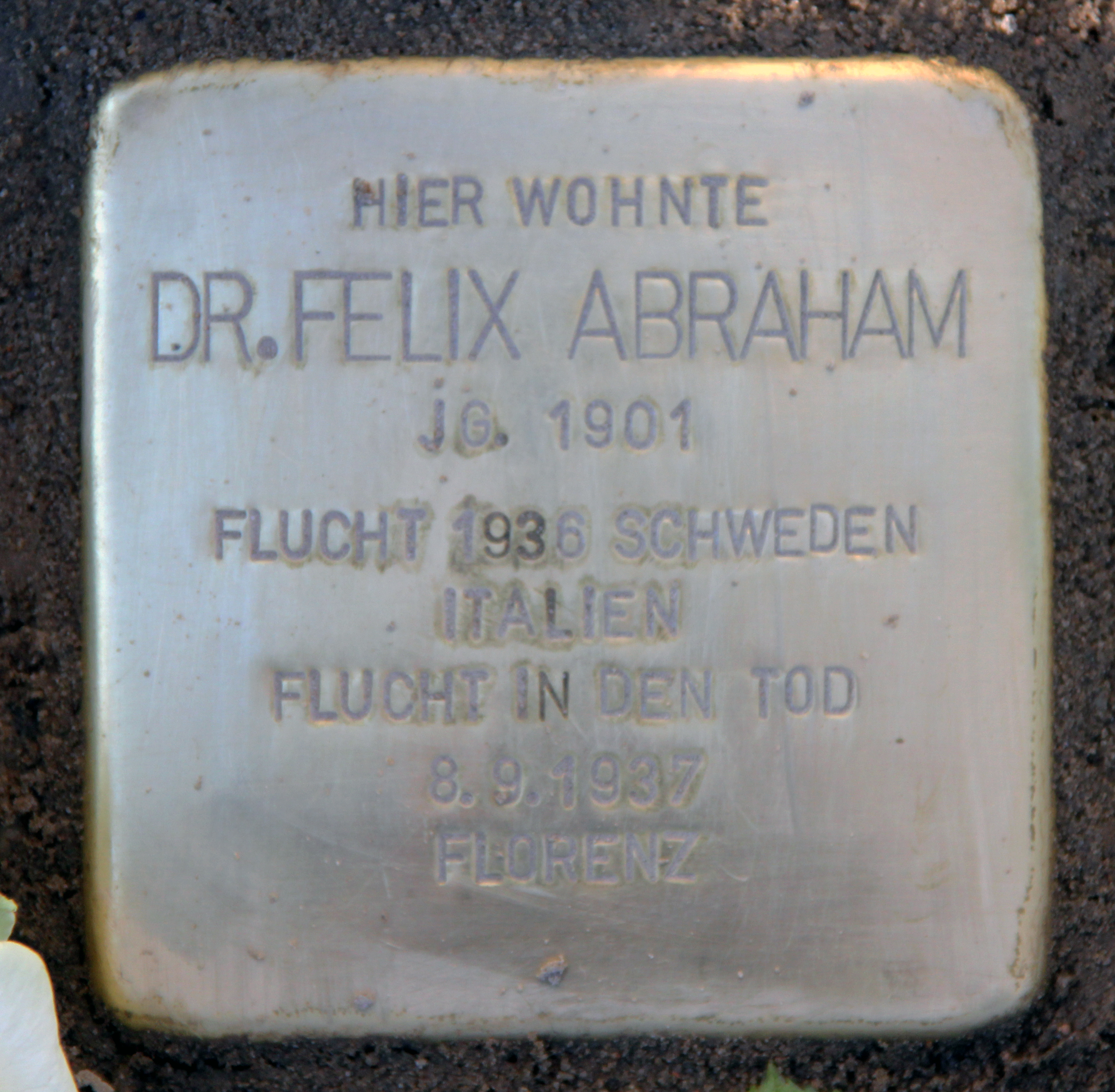 "Stolperstein" (stumbling block), Felix Abraham, Gritznerstraße 78, Berlin-Steglitz, Germany